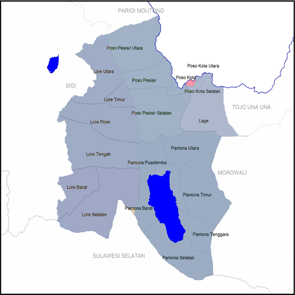 This is the administrative map of Poso Kota District, Poso Regency, Indonesia.